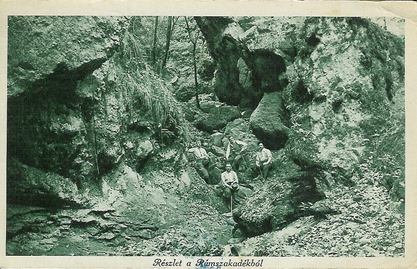 Rám Ravine, Dömös, Hungary (photo by Imre Gábor Bekey)